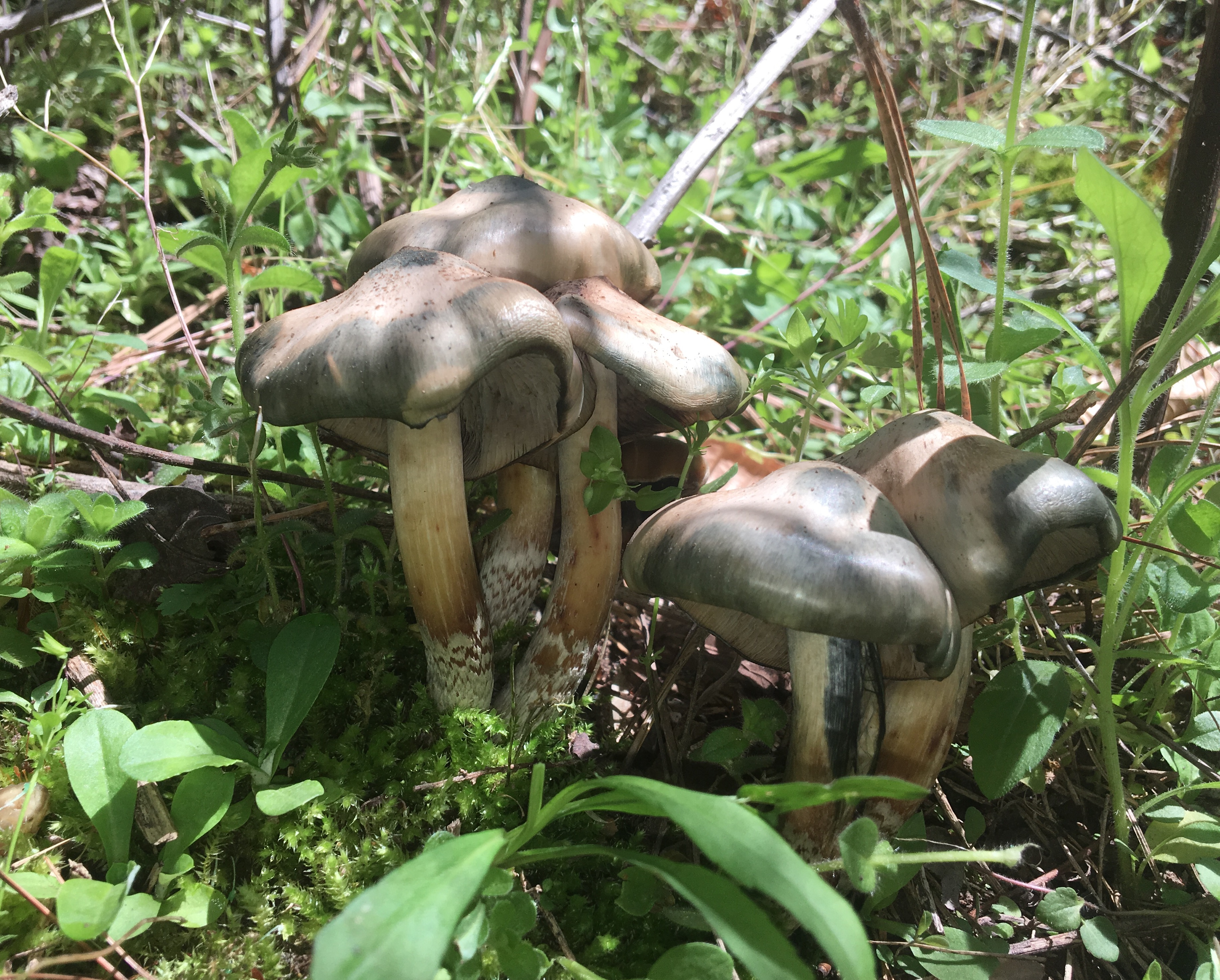 Psilocybe caerulescens Murrill Image location: Norcross, Georgia, USA Recognized by sight For more information about this, see the observation page at Mushroom Observer.